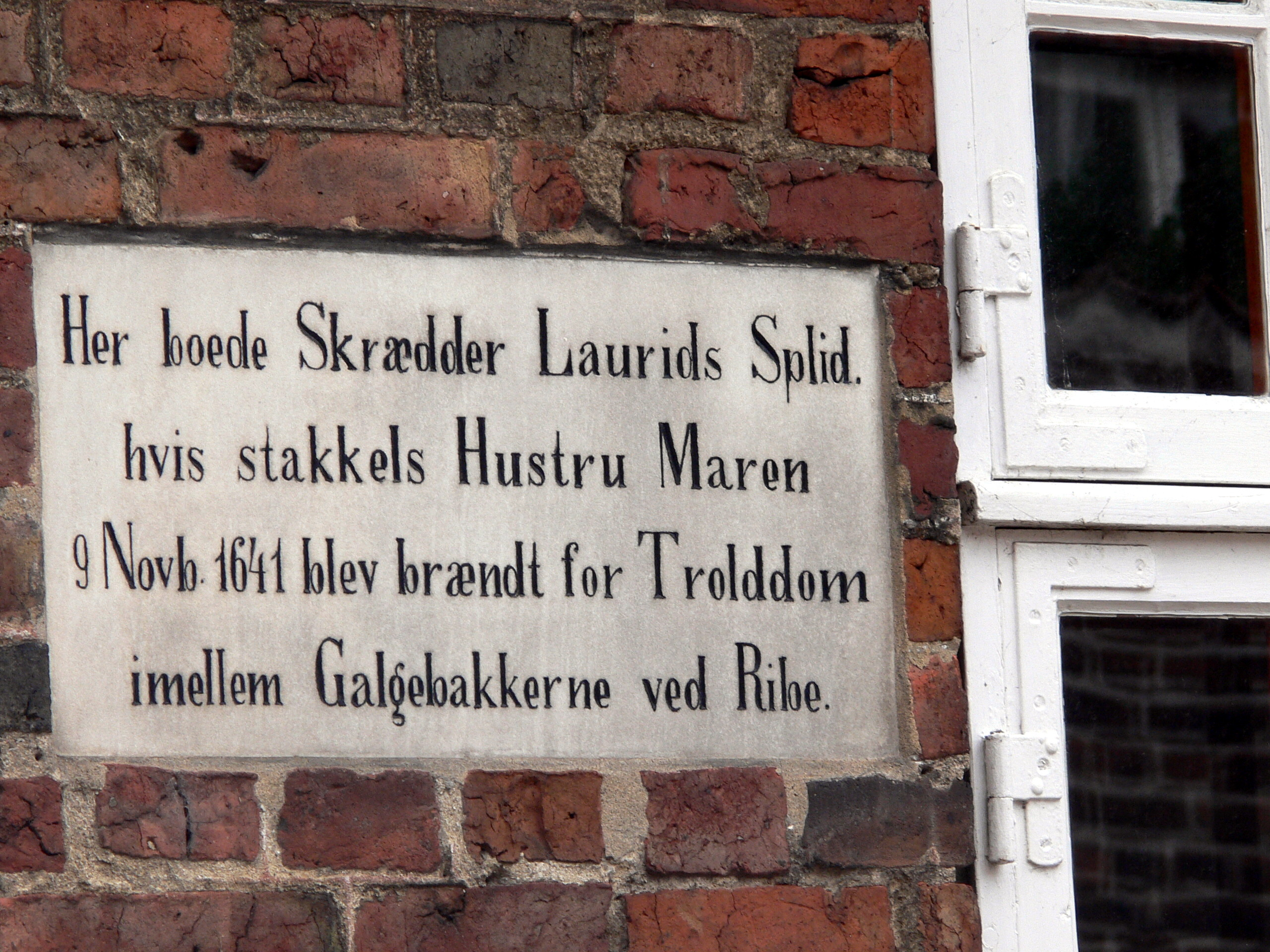 Ribe ( Denmark ). Memorial for a witch condemned to death in 1641.